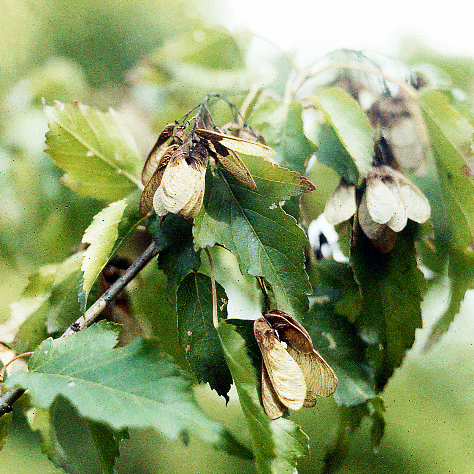 Acer ginnala samaras